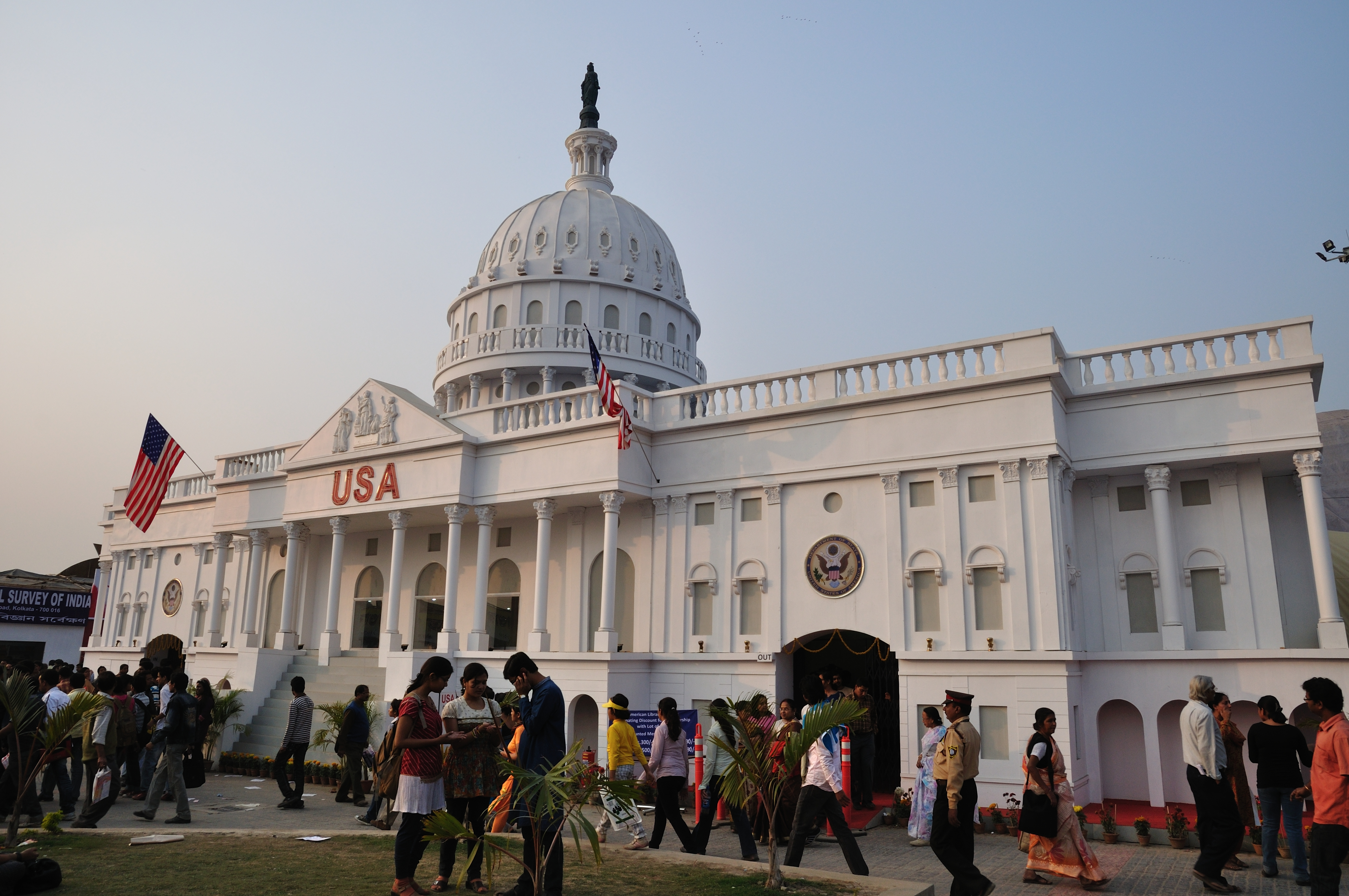 The Kolkata Book Fair (Old name: Calcutta Book Fair in English, and officially Kolkata Boimela or Kolkata Pustakmela,is a winter fair in Kolkata. It is a unique book fair in the sense of not being a trade fair - the book fair is primarily for the general public rather than whole-sale distributors. It is the world's largest non-trade book fair, Asia's largest book fair and the most attended book fair in the world. In 2011, the fair took place at ‘Milan Mela’ ground from 26th january to 6th February, opposite of ‘Science City’, Kolkata.